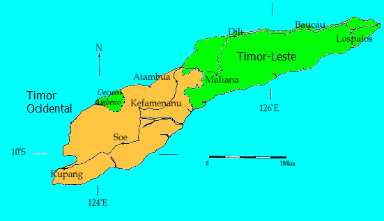 Timor Politic Map (legend in Portuguese)